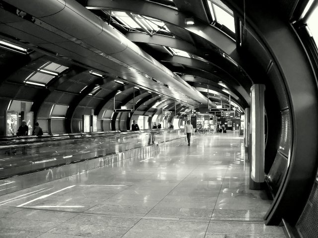 Terminal 2, Flughafen Frankfurt am Main, Frankfurt International Airport